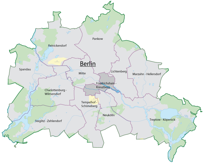 Author: Felix Hahn Source: Based on Water map of Berlin Description: Map of Berlin and its districts.